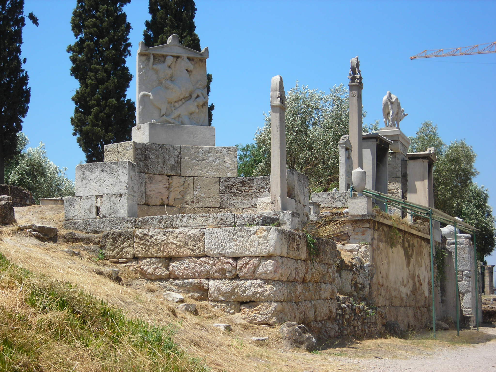 Modern copies of funerary steles (including the Dexileos stele) at Kerameikos, Athens, Greece.